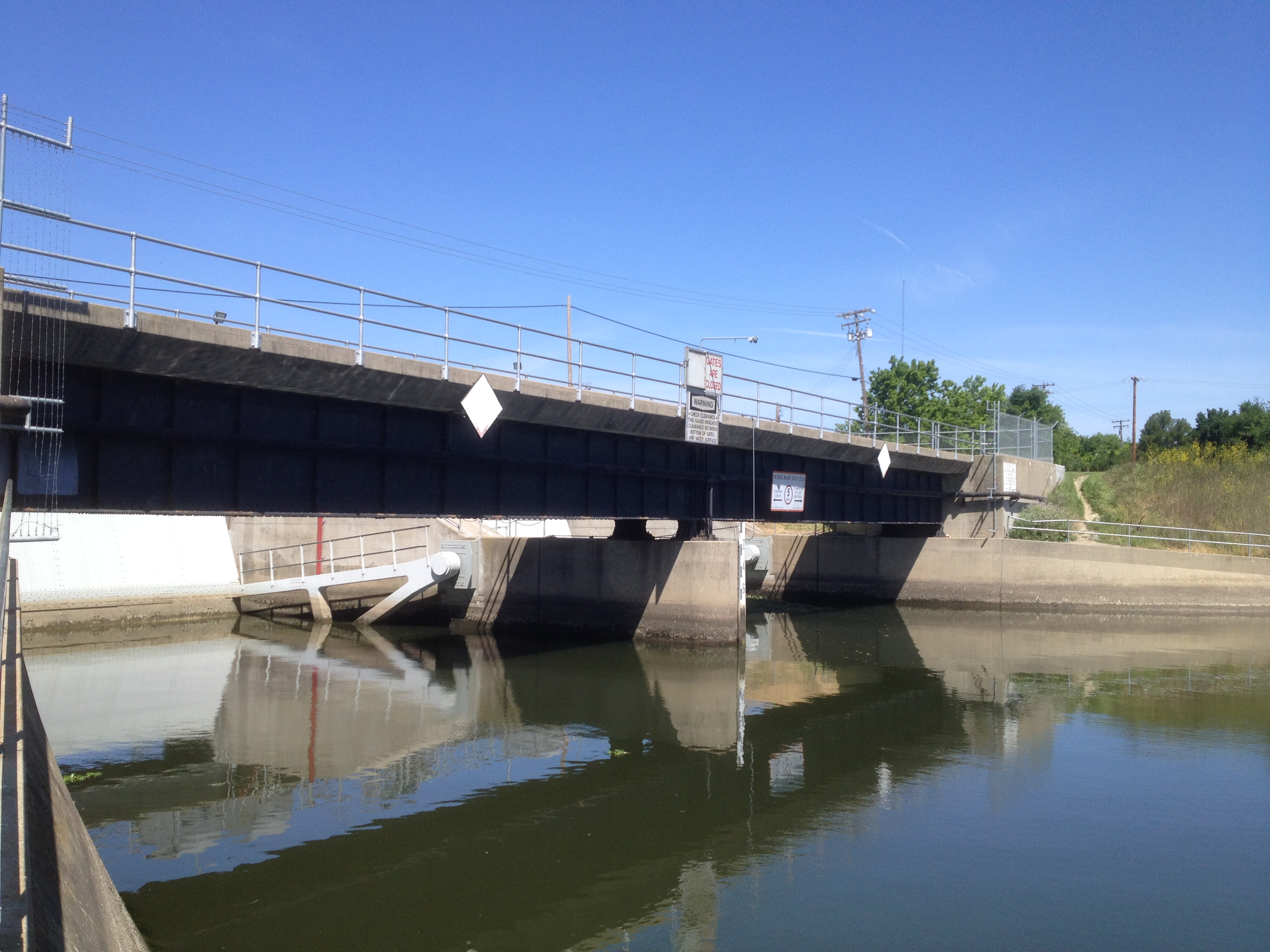 The sluice gate for the Delta Cross Channel in the Sacramento-San Joaquin Delta.